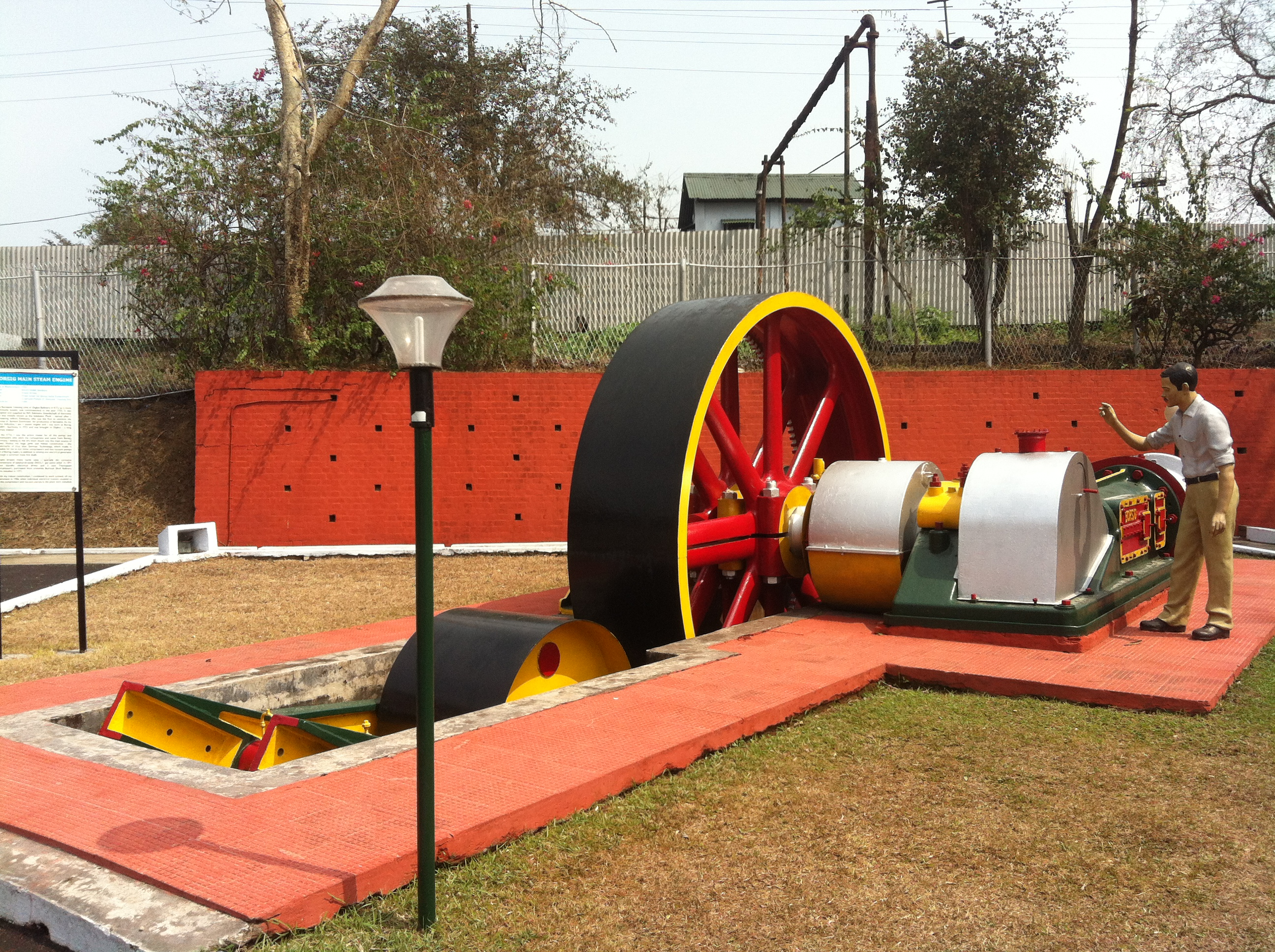 Digboi Centenary Museum was established by Assam Oil Company (part of Indian Oil) to commemorate the history the oil industies in the valley of Assam. This museum was opened behind the oil refinery at Digboi in early 2002. Many of the old and preserved machinery are there in this museum.